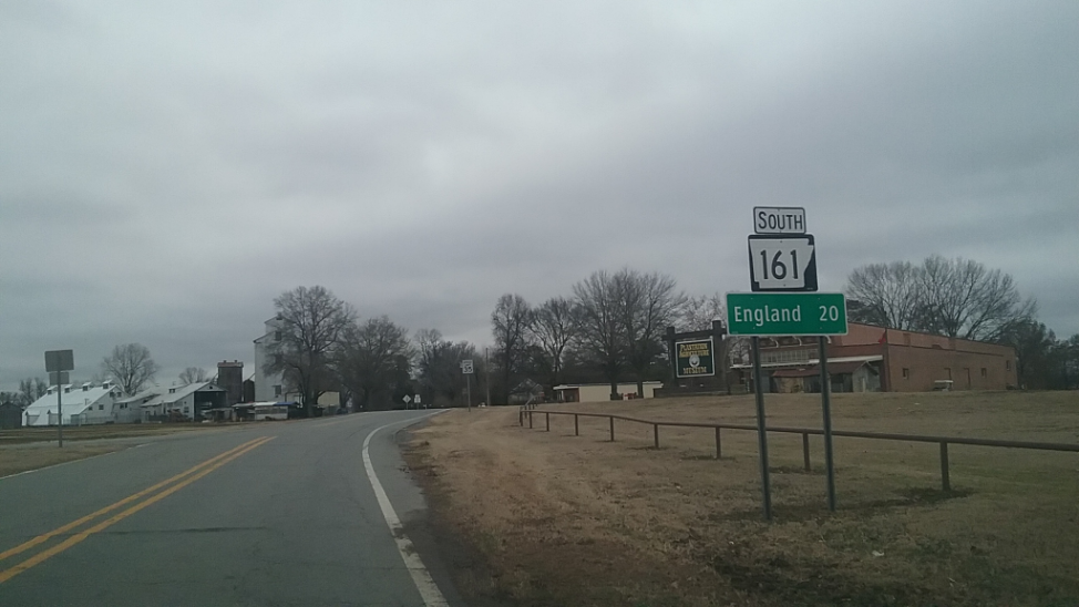 Arkansas State Highway 161 in Scott. Photo taken on February 12, 2018.